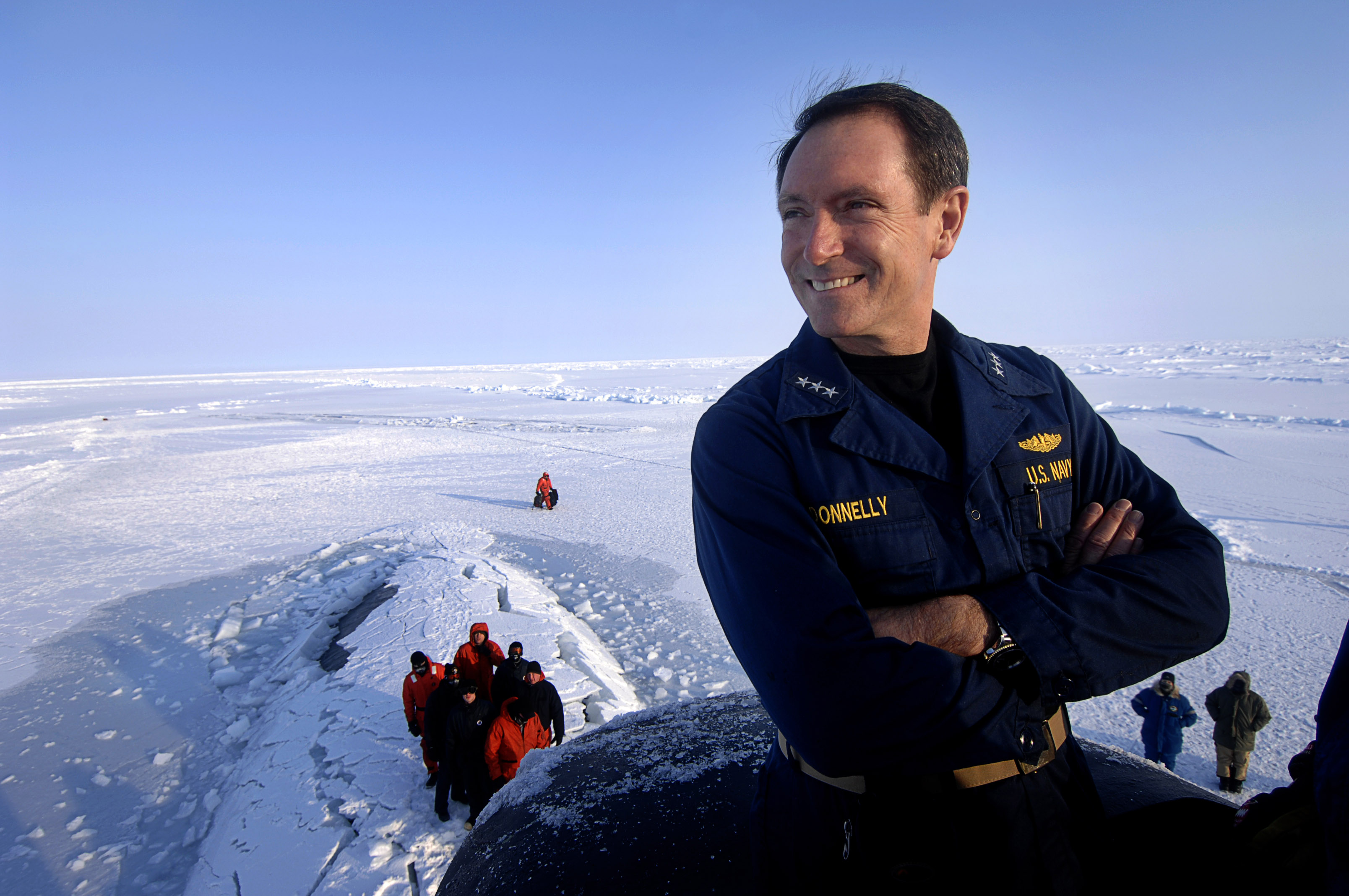 ARCTIC OCEAN (March 18, 2007) – Commander, Submarine Force, Vice Adm. John Donnelly looks over the frozen Arctic Ocean from the bridge of attack submarine USS Alexandria (SSN 757). Alexandria surfaced through two feet of ice during ICEX-07, a U.S. Navy and Royal Navy exercise being conducted on and under a drifting ice floe about 180 nautical miles off the north coast of Alaska. U.S. Navy photo by Chief Mass Communication Specialist Shawn P. Eklund (RELEASED)